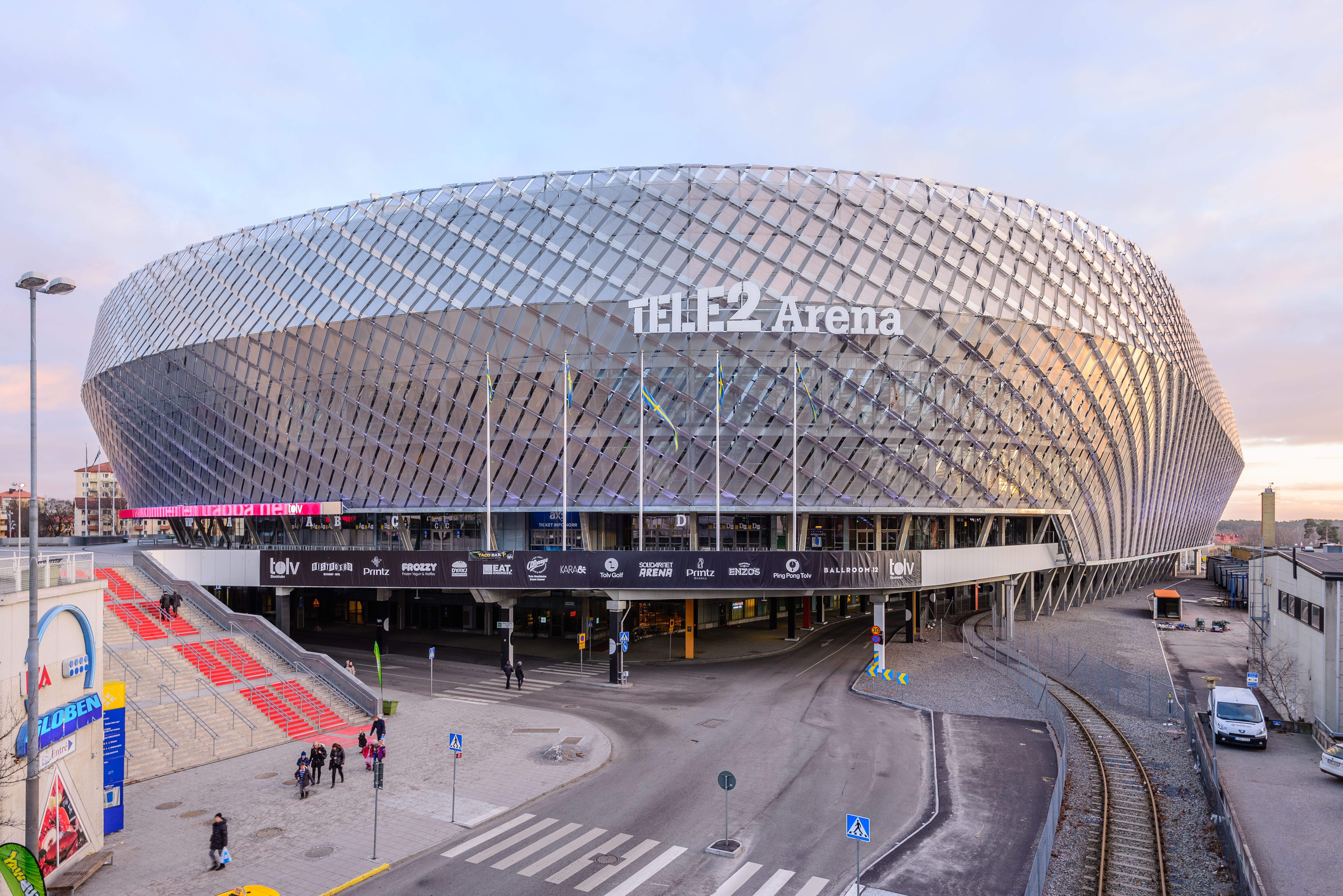 Tele2 Arena, Stockholm.